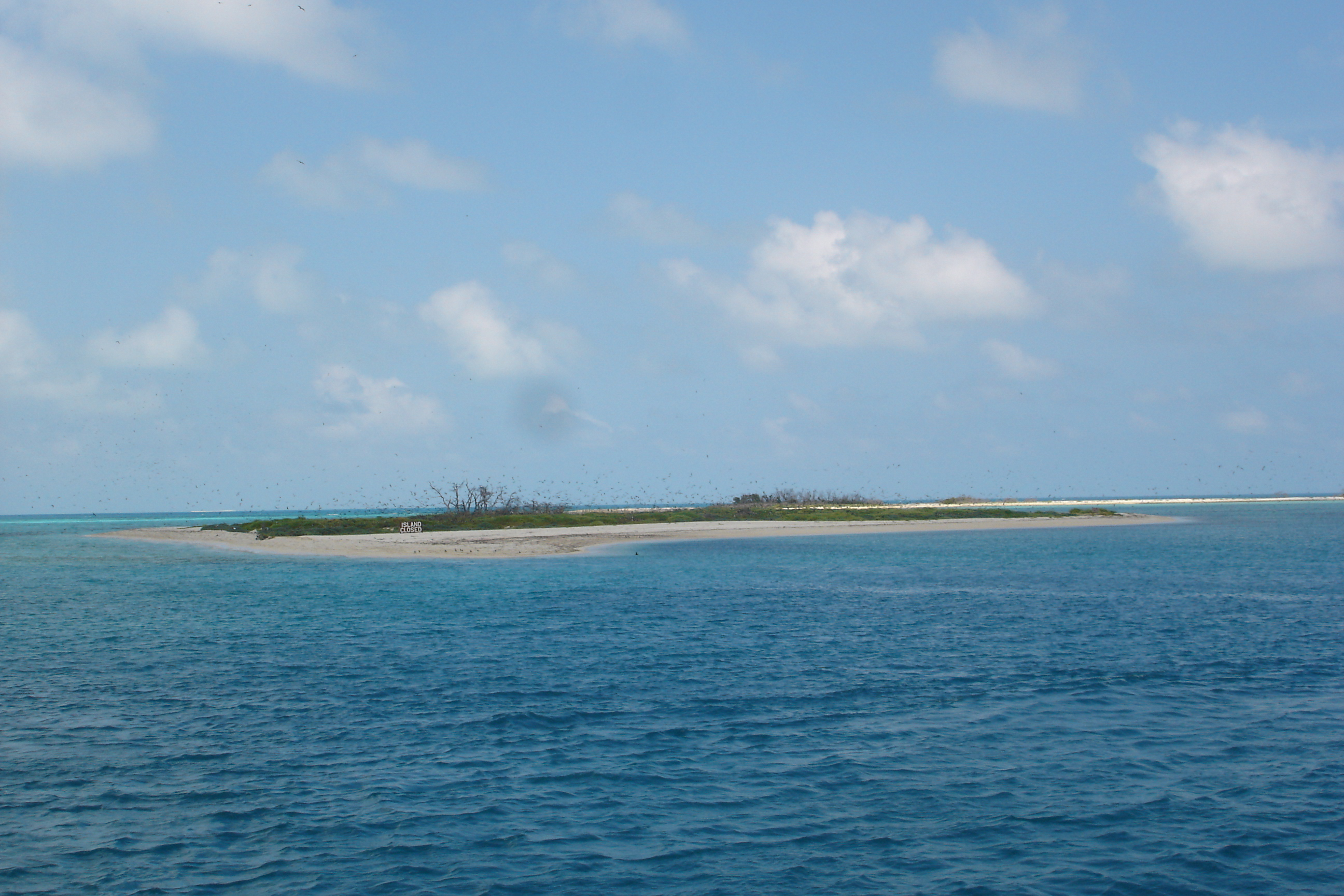 Bush and Long Key as seen from Garden Key